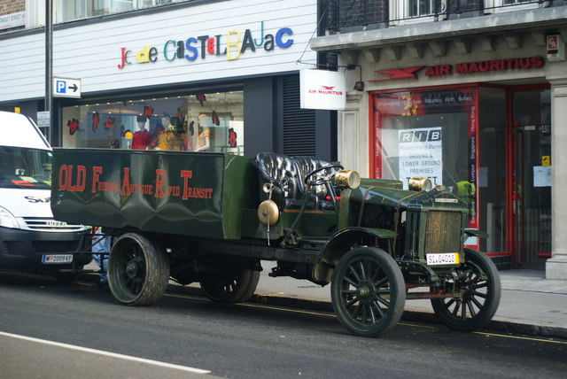 OLD Friends Antique Rapid Transit London – Brighton Veteran Car Run 2009. Vehicle is a Class B 3-ton lorry built under the US Army Liberty program. “Saturday 31 October - REGENT STREET - 11am to 3pm The International Concours for LBVCR Cars is held in London's prestigious Regent Street which will close for the day in order to stage the Concours for over 100 fine examples from the Sunday Run. Apart from the static display a number of the pre-1905 motor vehicles will provide demonstration runs along Conduit Street and around Berkeley Square.” A fine old vehicle; for some reason, people looked at it and chunkled.